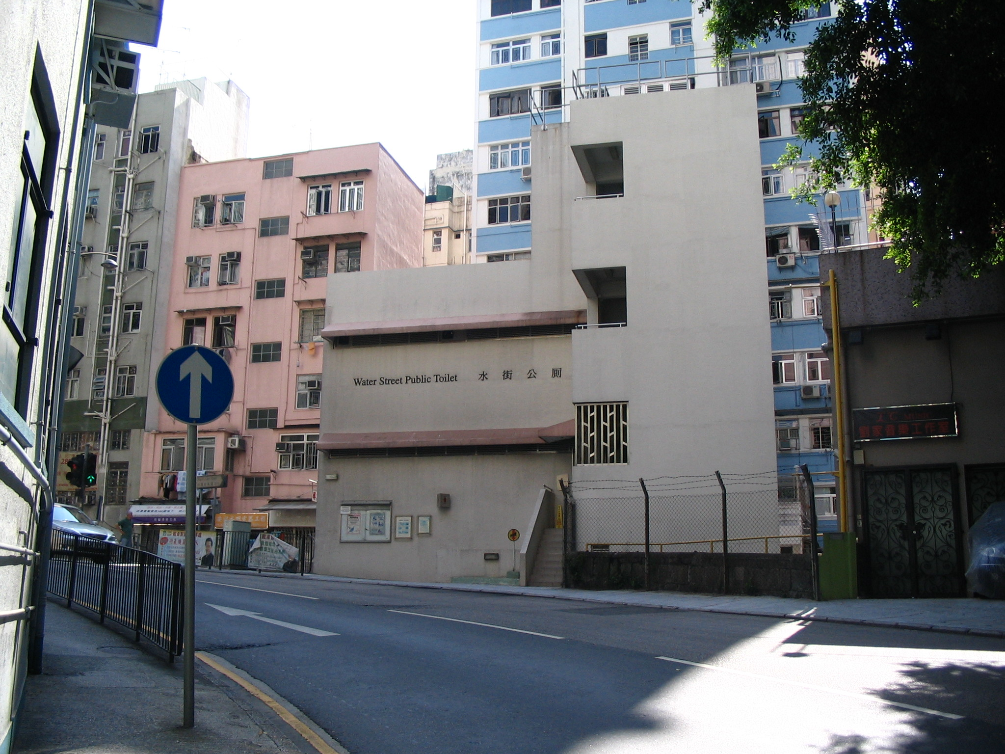 Photo of Water Street Public Toilet